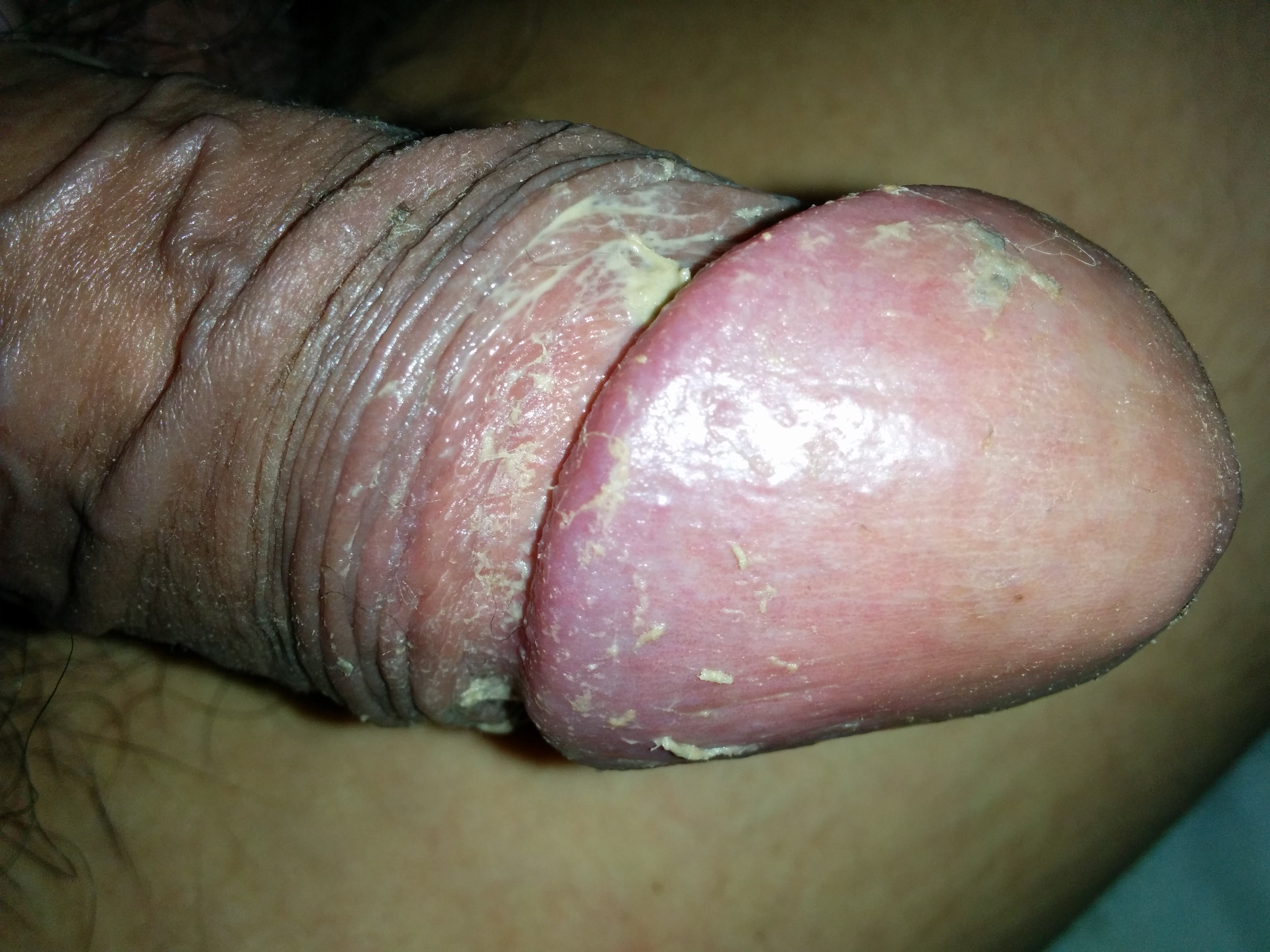 This is a photo showing smegma, a whitish substance which can collect on the glans, around the clitoris or in the folds of the labia minora. In the photo, smegma is visible on the neck of an uncircumcised penis of an adult human male. The recipient kindly made his penis erect so that the smegma is more visible. Smegma is a quite odorous substance. It has an unique pungent smell. In males, since smegma is produced by cells in the inner foreskin, circumcised penises do not create smegma because these cells have been removed with the foreskin, which is why circumcised penises are generally cleaner than uncircumcised penises.